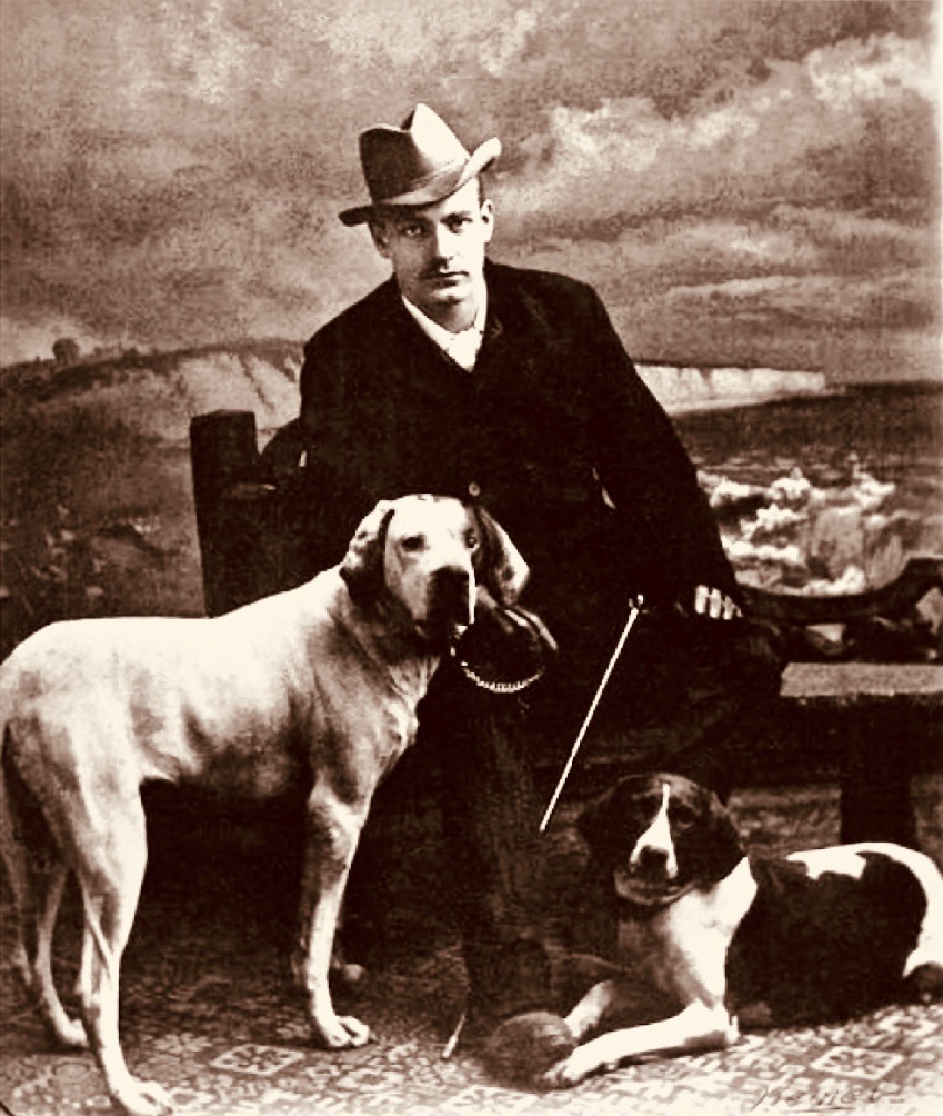 Willi Grétor (1868–1923), also Gretor, in fact: Julius Rudolph Vilhelm Petersen, born on Wundlacken Castle near Königsberg in East Prussia, raised in the Danish capital Copenhagen. He was the husband of painter Rosa Pfäffinger (1866–1949) and the father of Lilly Ackermann (1891–1976), née Schorer, and Georg Gretor (1892–1943).